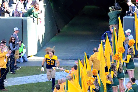 Clay Matthews of the Green Bay Packers entering the stadium